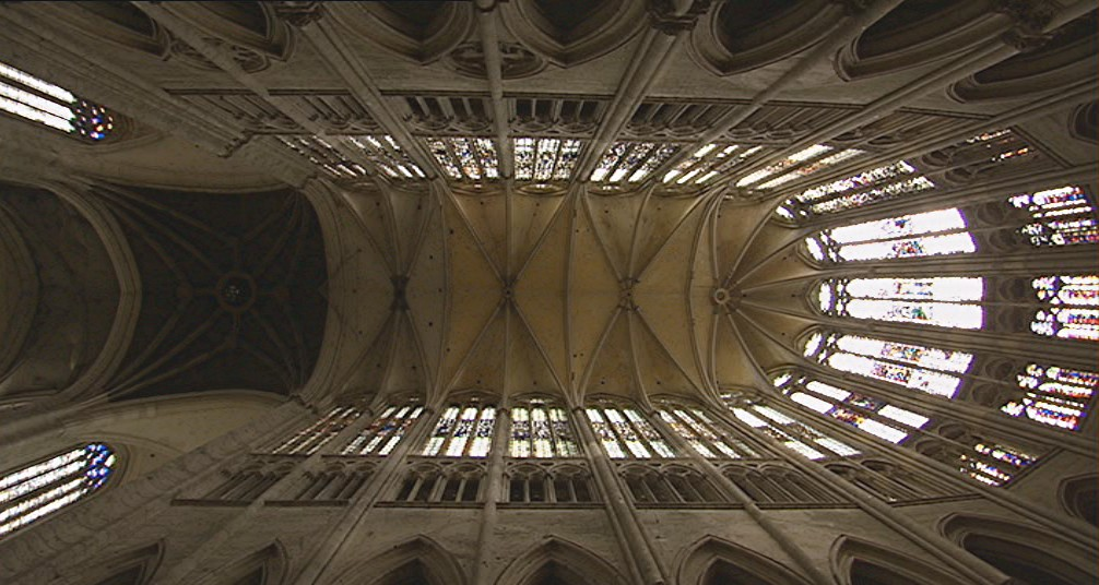 Vault of the Beauvais Cathedral